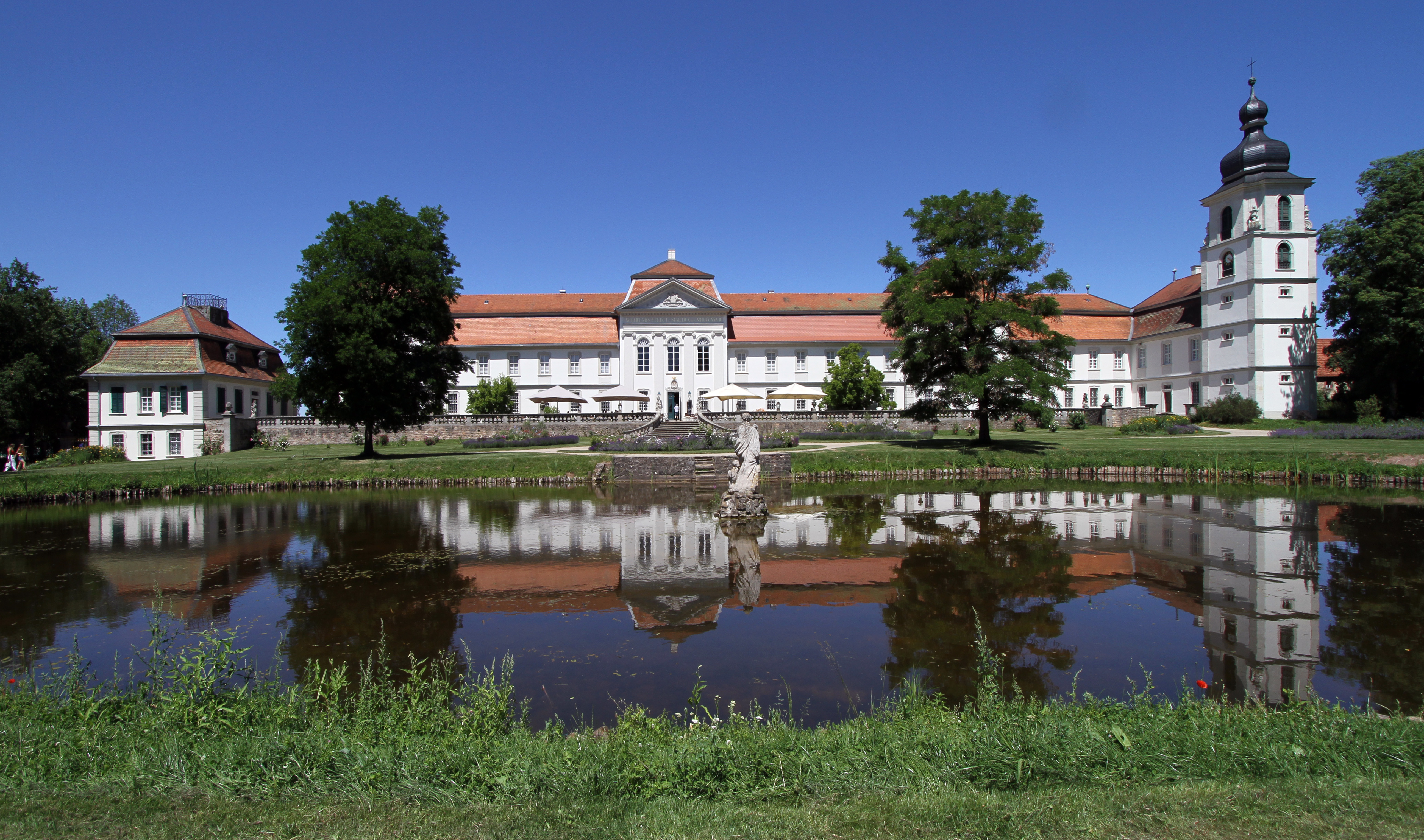 Castle Fasanerie in Eichenzell